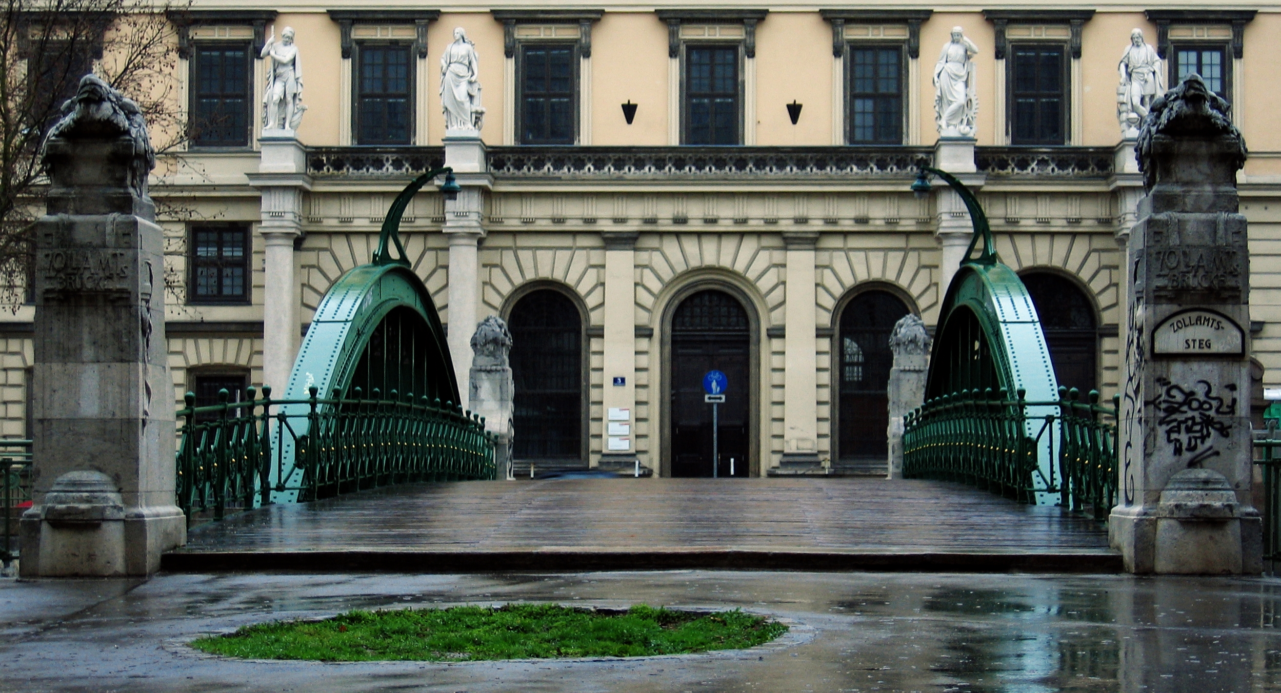 Front view of the Zollamtssteg (ie. custom office footbridge) in Vienna (Austria). Picture taken from north-west (Schallautzerstraße) after a rain shower. Partially visible in the background: former Finanzlandesdirektion (ie. Federal State Finance Directoriate), Vordere Zollamtsstraße 3.